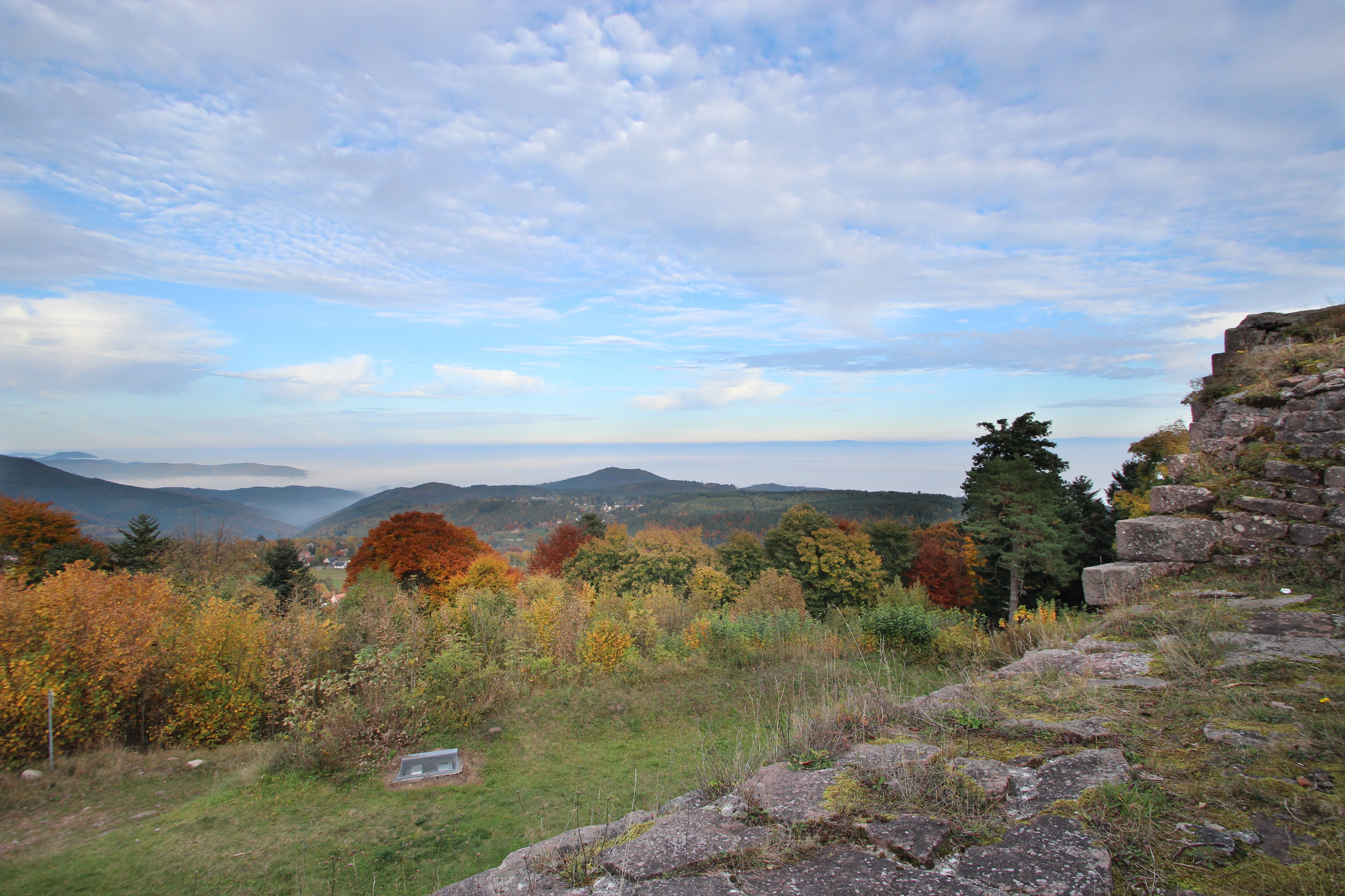 Hohnack castel in Labaroche, France. Object location48° 05′ 39.12″ N, 7° 11′ 02.4″ E It is indexed in the Base Mérimée, a database of architectural heritage maintained by the French Ministry of Culture, under the references PA00085500 and IA68007705 . This image was uploaded as part of L'Été des villes 2015.